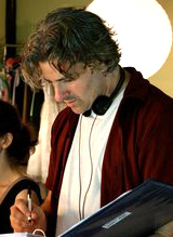 Director Darren Press on set of feature film Teresa is a Mother